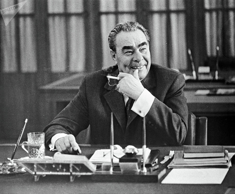 Soviet leader Leonid Brezhnev. From the booklet "President Nixon and the Role of Intelligence in the 1973 Arab-Israeli War." For more information, visit